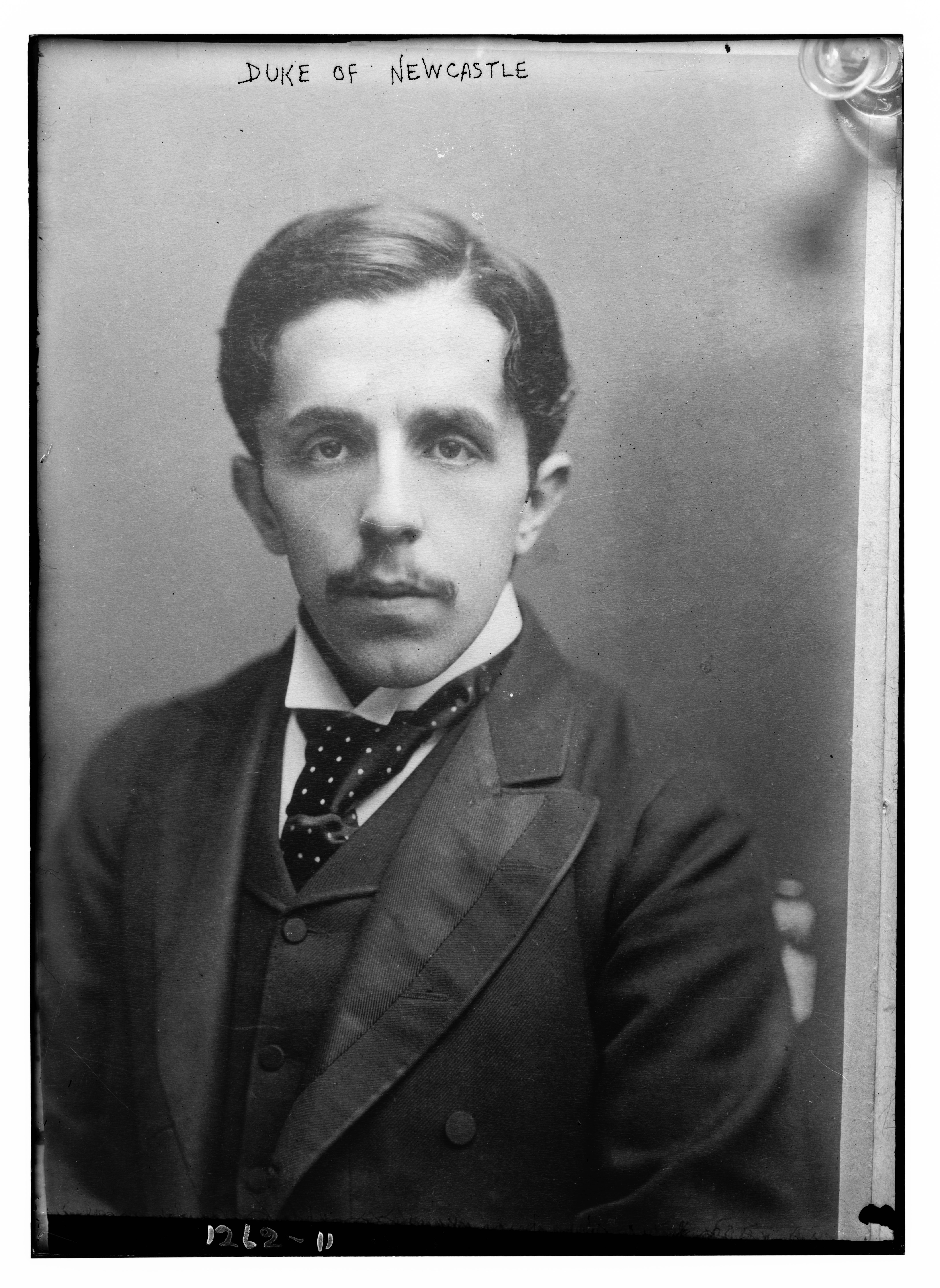 Title: Duke of Newcastle Abstract/medium: 1 negative : glass ; 5 x 7 in. or smaller.